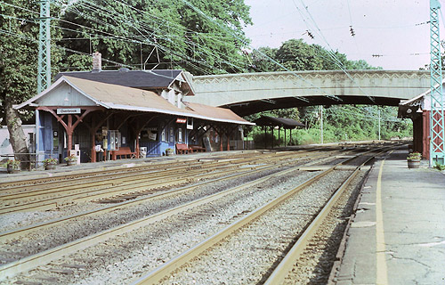 Overbrook station in July 1984